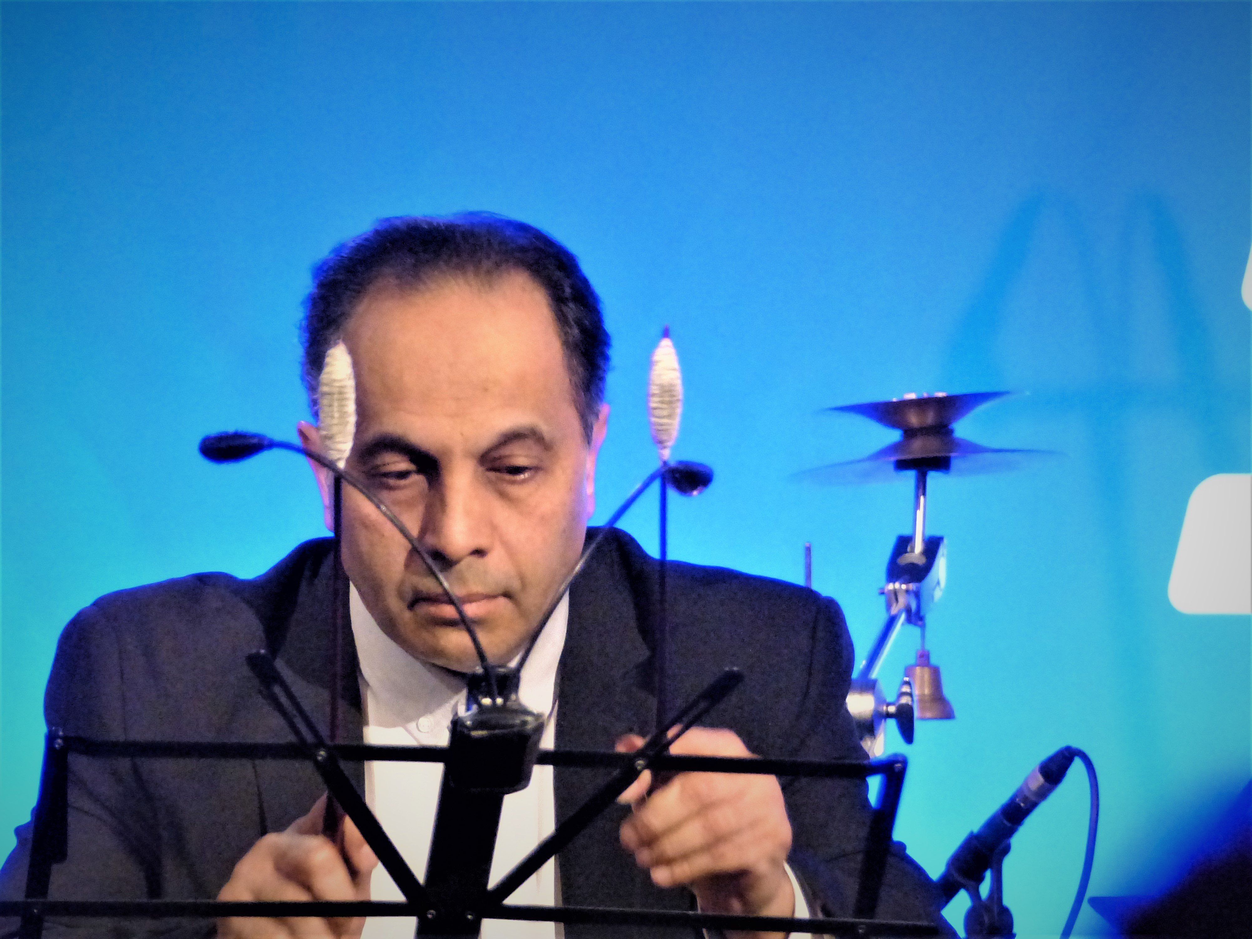 Balogh Kálmán (cimbalom). Taken on the 1st of December, 2017. V4 concerts, Balogh Kálmán, Lukács Miklós Gipsy Cimbalom Duo. Várkert Bazár, Budapest, Central Europe. Lineup: Balogh Kálmán, Lukács Miklós, Pesti László, Bede Péter, Látó Ferenc, Novak Csaba.